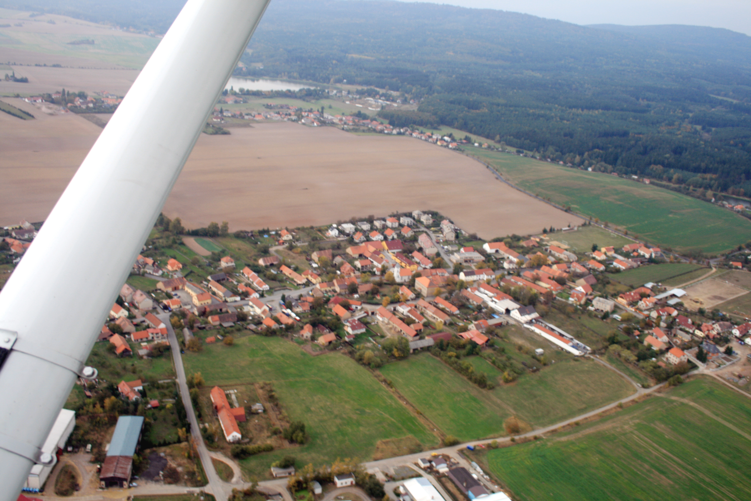 Air photo of Rosovice in central Bohemia, Czech Republic